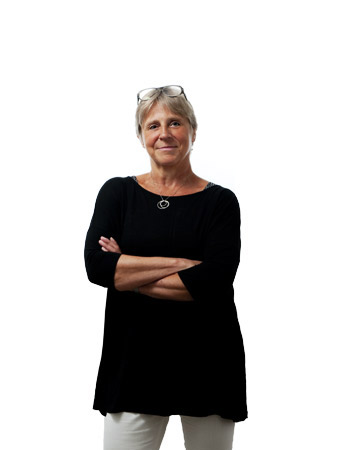 Arkitekt